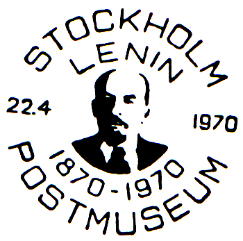 1970 special cancellation stamp of the Stockholm Postal Museum, which was used during a philatelic exhibition honouring the 100th birth anniversary of Vladimir Lenin.